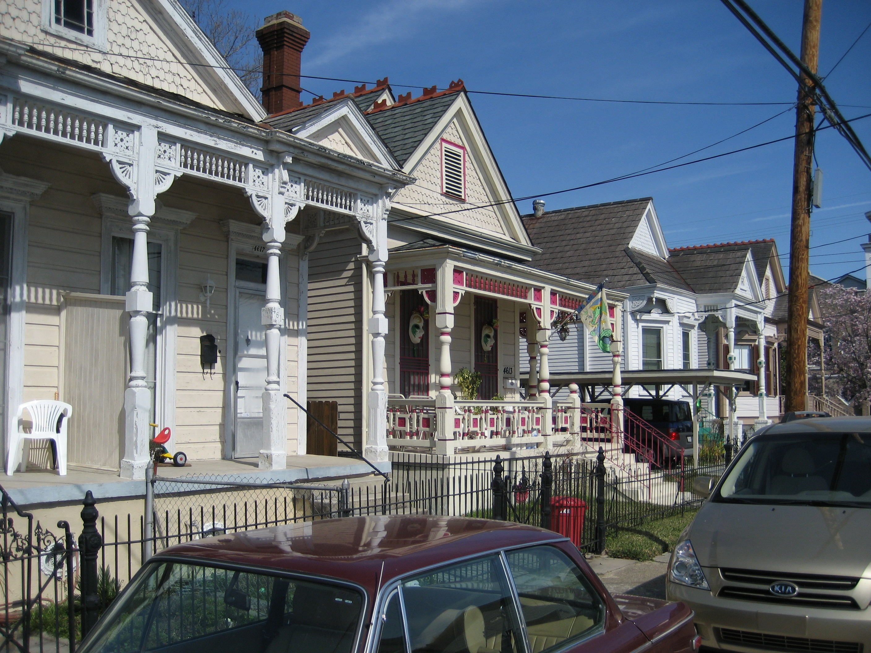 Houses in Uptown New Orleans; one decorated with mask figures for Carnival